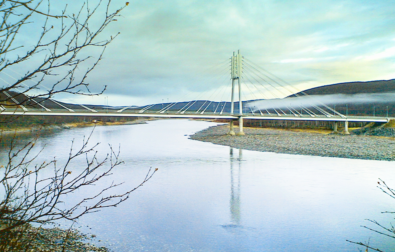 View from our window at Utsjoki, bridge between Finland and Norway.